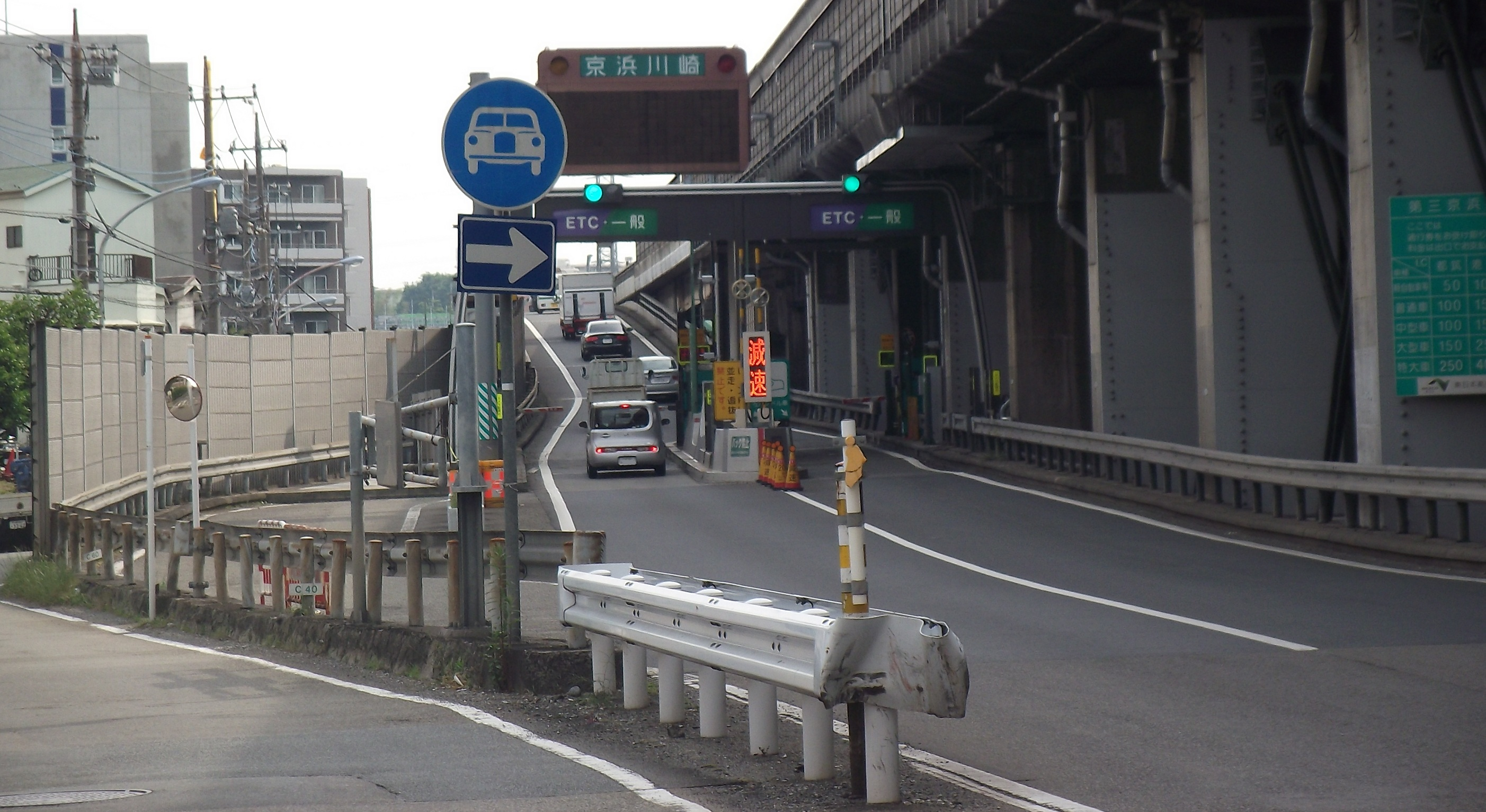 Toll gates at Keihin-Kawasaki Interchange for Yokohama